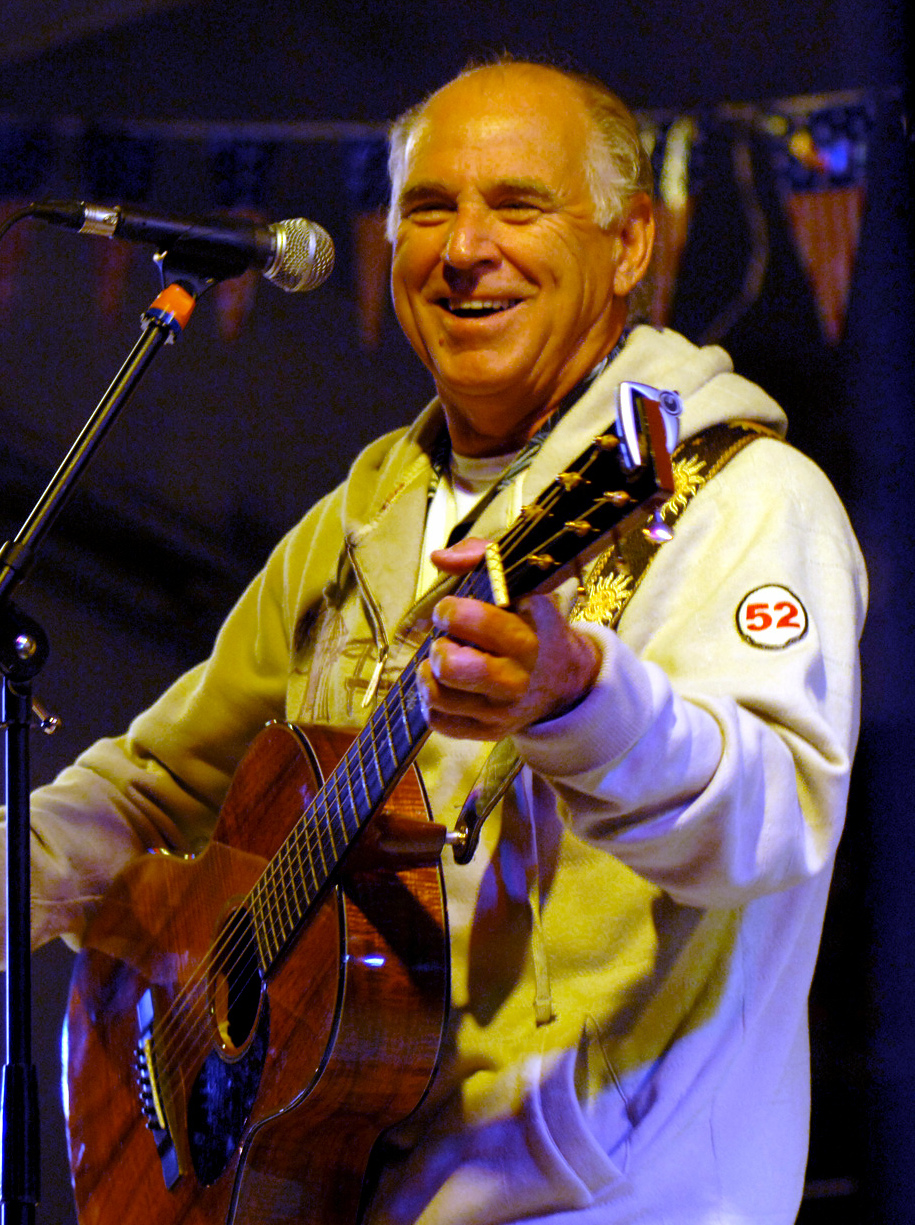 Jimmy Buffett 080128-N-3235P-221 MIDDLE EASTERN PORT (Jan. 28, 2008) Recording artist Jimmy Buffett performs a USO concert for the sailors of the Nimitz-class aircraft carrier USS Harry S. Truman (CVN 75) during a recent port visit in the Middle East. Truman and embarked Carrier Air Wing (CVW) 3 are underway on a scheduled deployment supporting Operations Iraqi Freedom, Enduring Freedom and maritime security operations.